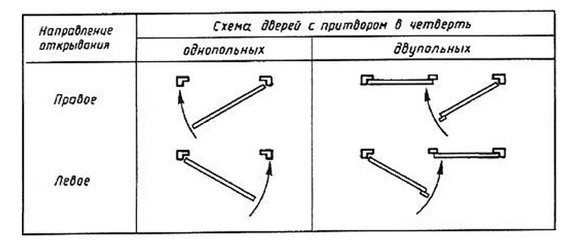 Definitions of "right" (top) and "left" (bottom) doors form the GOST 6629-88